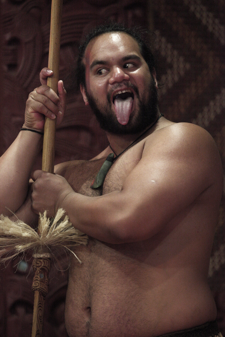 A traditional Maori dancer demonstrates the haka...